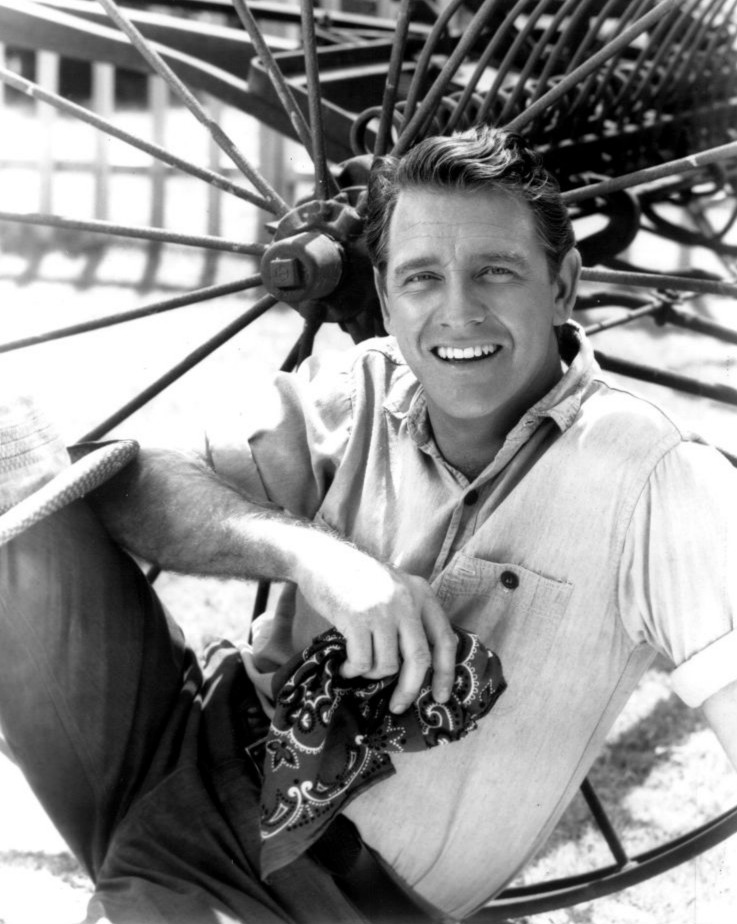 Photo of Richard Crenna as Luke Mc Coy from the television program The Real McCoys.